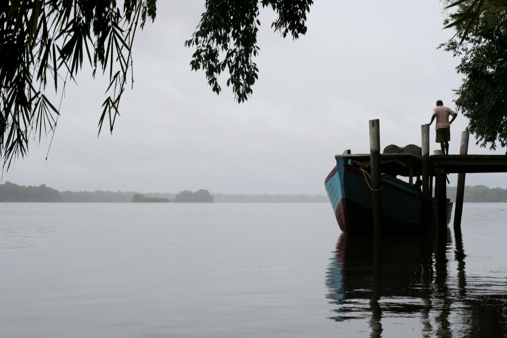 River near Apoera, Suriname